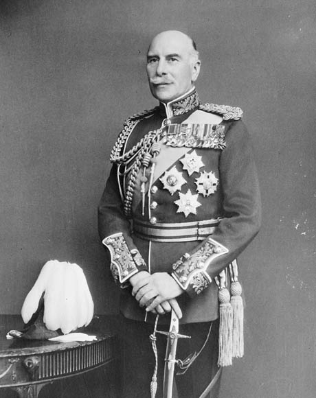 Collections Canada Click on first item, as linking directly doesn't seem to work. Homagetocatalonia 22:59, 20 February 2006 (UTC) Copyright expired. See link. Governors General of Canada Alexander Cambridge, 1st Earl of Athlone Category:Governors General of Canada